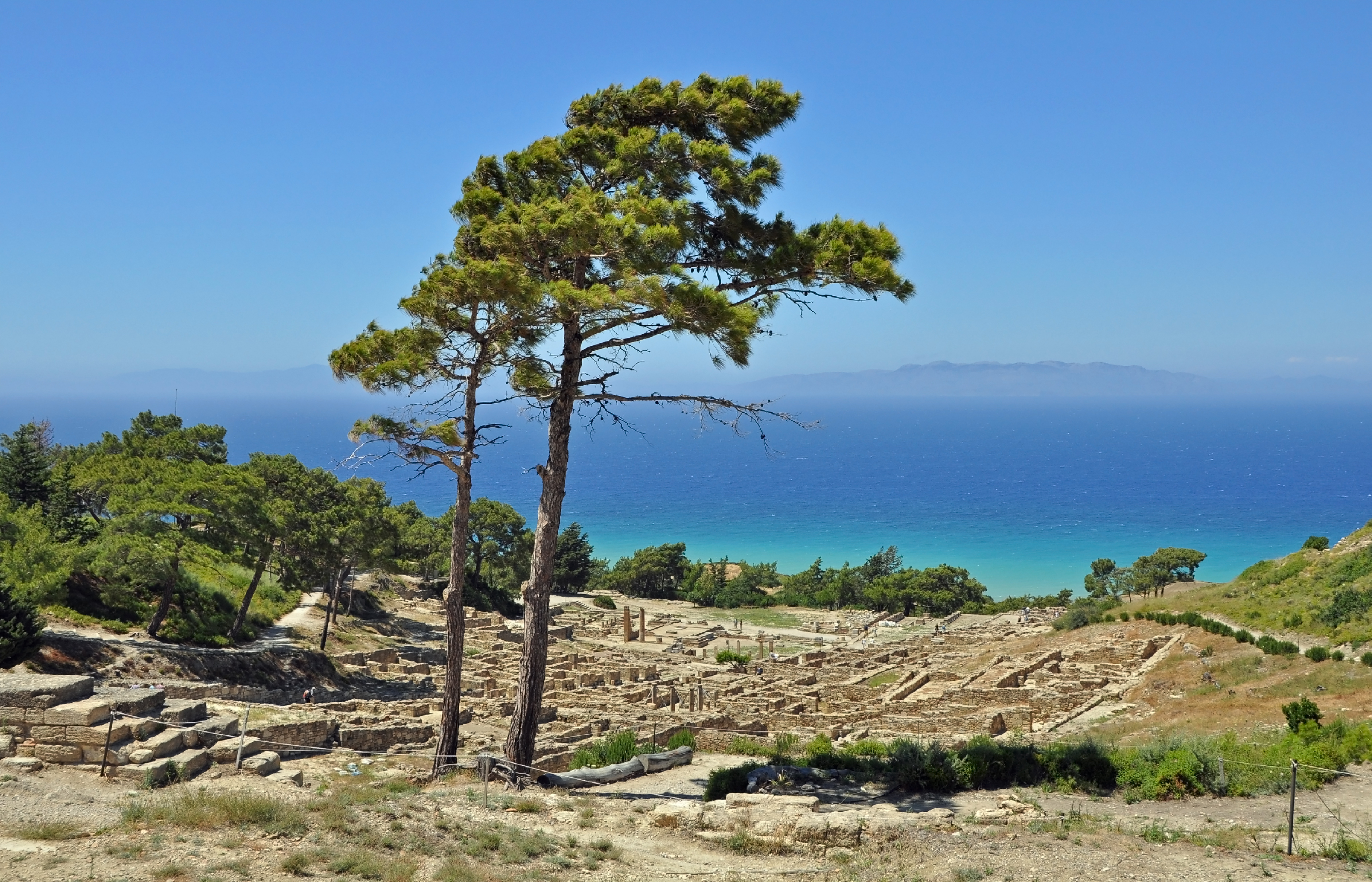 Isle of Rhodes (Greece): ruins of ancient Kameiros